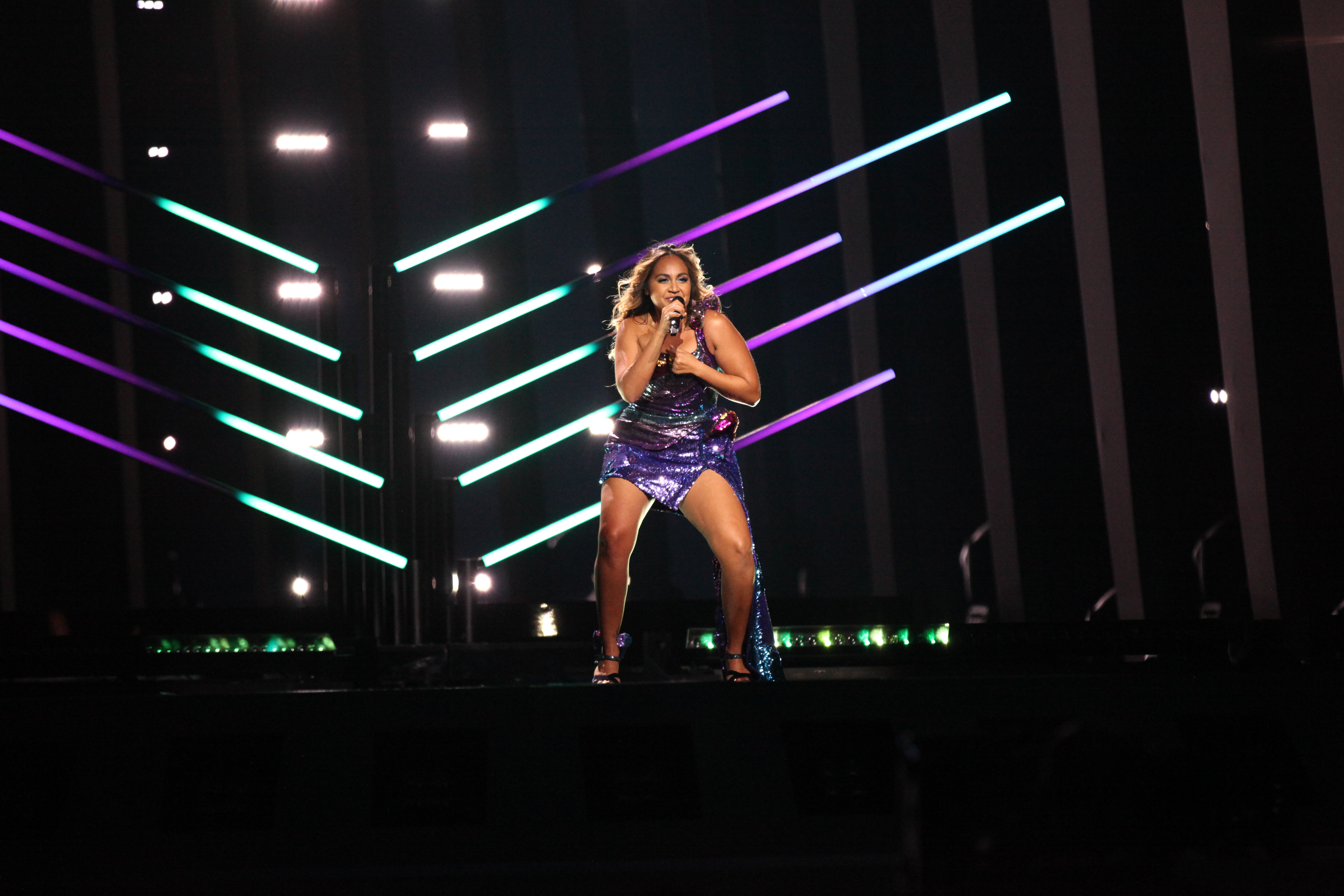 Jessica Mauboy representing Australia with the song "We Got Love" during a rehearsal before the second semi final of the Eurovision Song Contest 2018 in Lisbon.